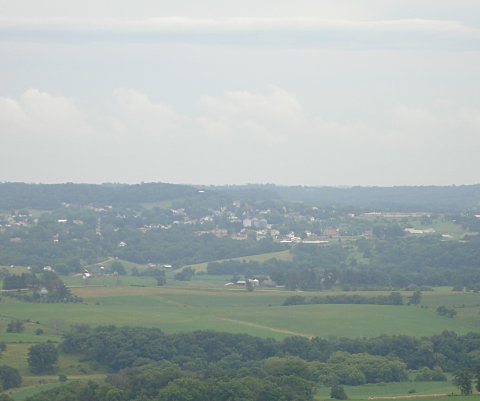 Elizabeth, Illinois, as seen from the senic overlook just west of the city.